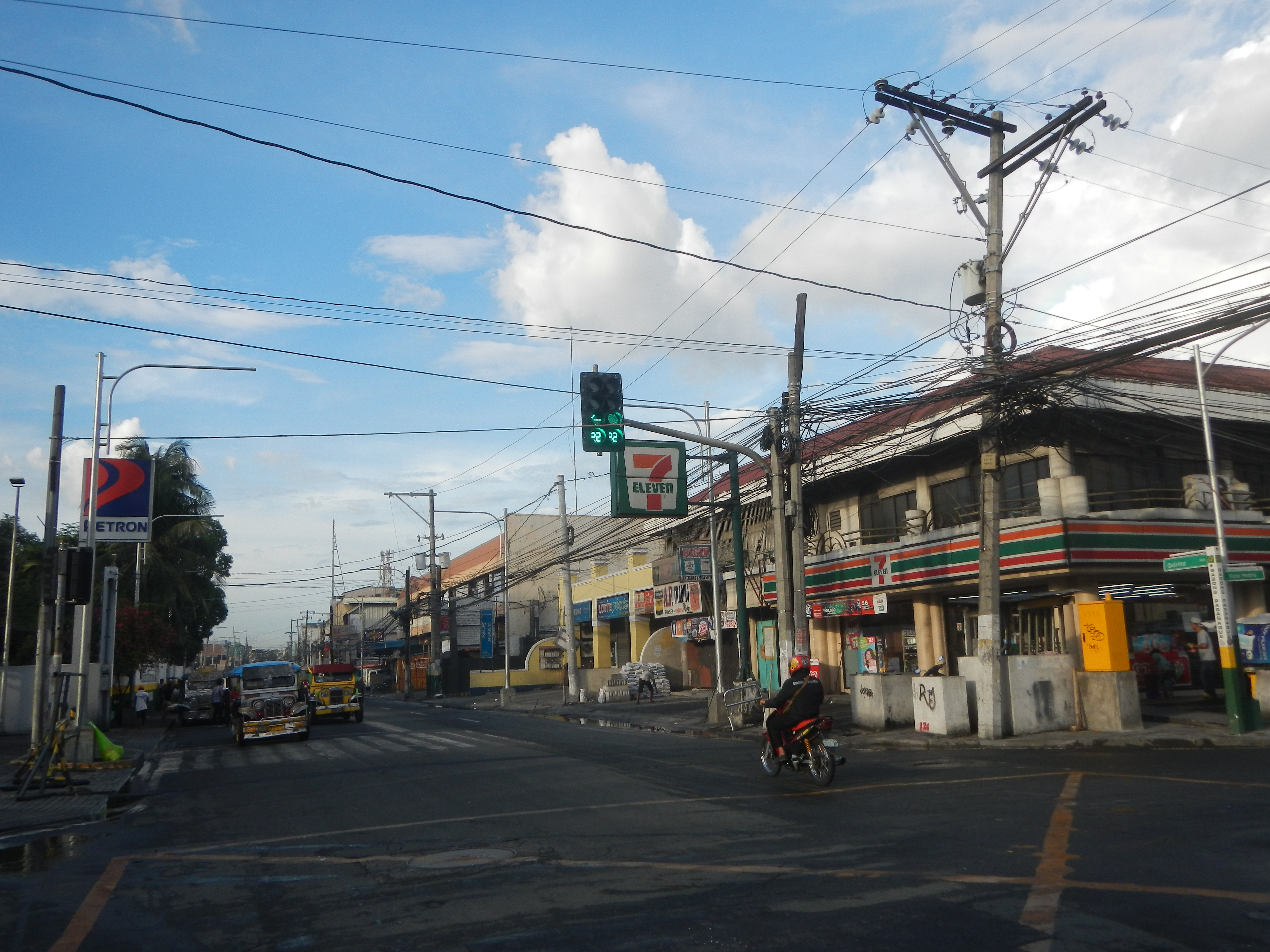 Hitachi EX200 Construction of R. C. Box Culverts (Elpidio Quirino Avenue, San Dionisio, Parañaque City) Legislative districts of Parañaque 1st District, Districts and barangays, Barangay La Huerta 14°29'50"N 120°59'43"E beside Tambo 14°30'59"N 120°59'20"E San Dionisio 14°29'2"N 120°59'33"E Baclaran, Parañaque City beside Barangay Manuyo Uno (Las Piñas) 14°28'52"N 120°59'9"E Las Piñas along Elpidio Quirino Avenue to Roxas Boulevard, Radial Road 2 from Baclaran LRT station (Note: Judge Florentino Floro, the owner, to repeat, Donor Florentino Floro of all these photos hereby donate gratuitously, freely and unconditionally Judge Floro all these photos to and for Wikimedia Commons, exclusively, for public use of the public domain, and again without any condition whatsoever).